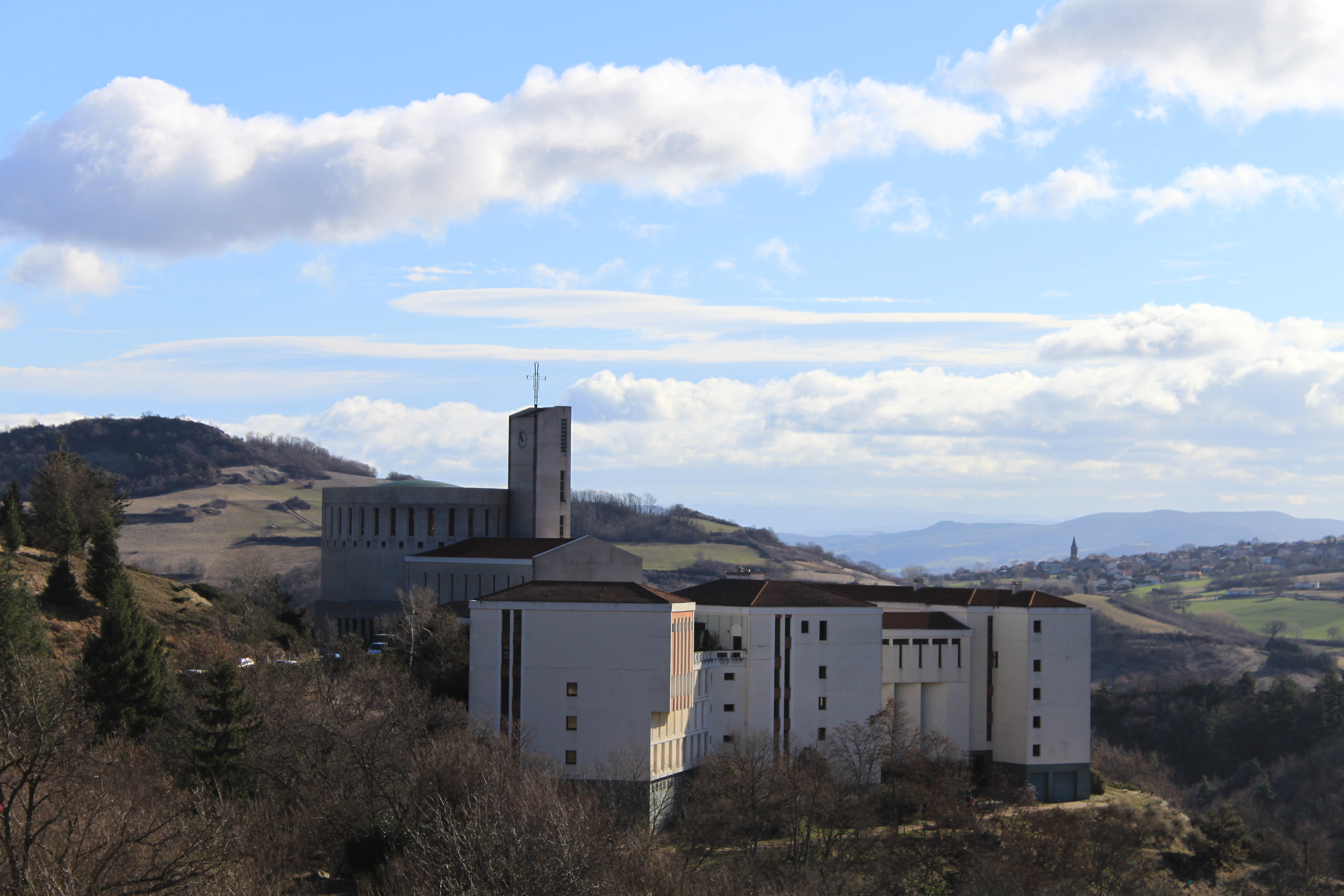 Notre-Dame de Randol Abbey